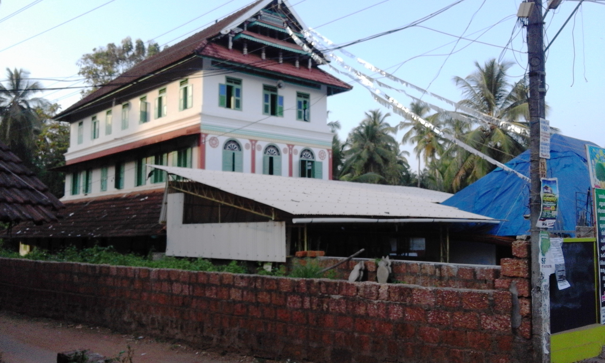 Feroke, Kozhikode District, Kerala province, India.